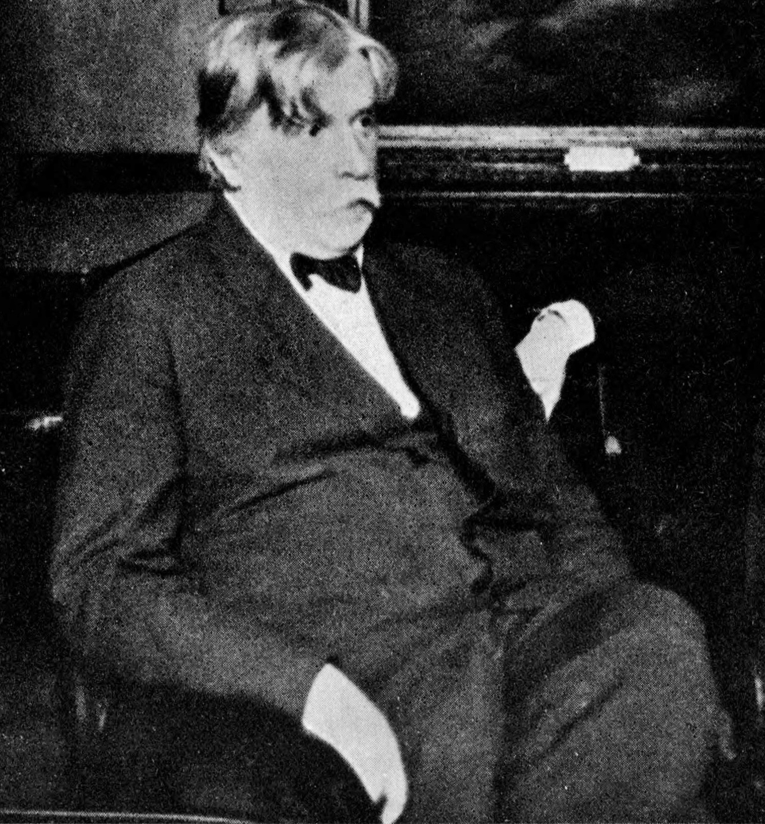 The Russian Painter Alexander Golovin